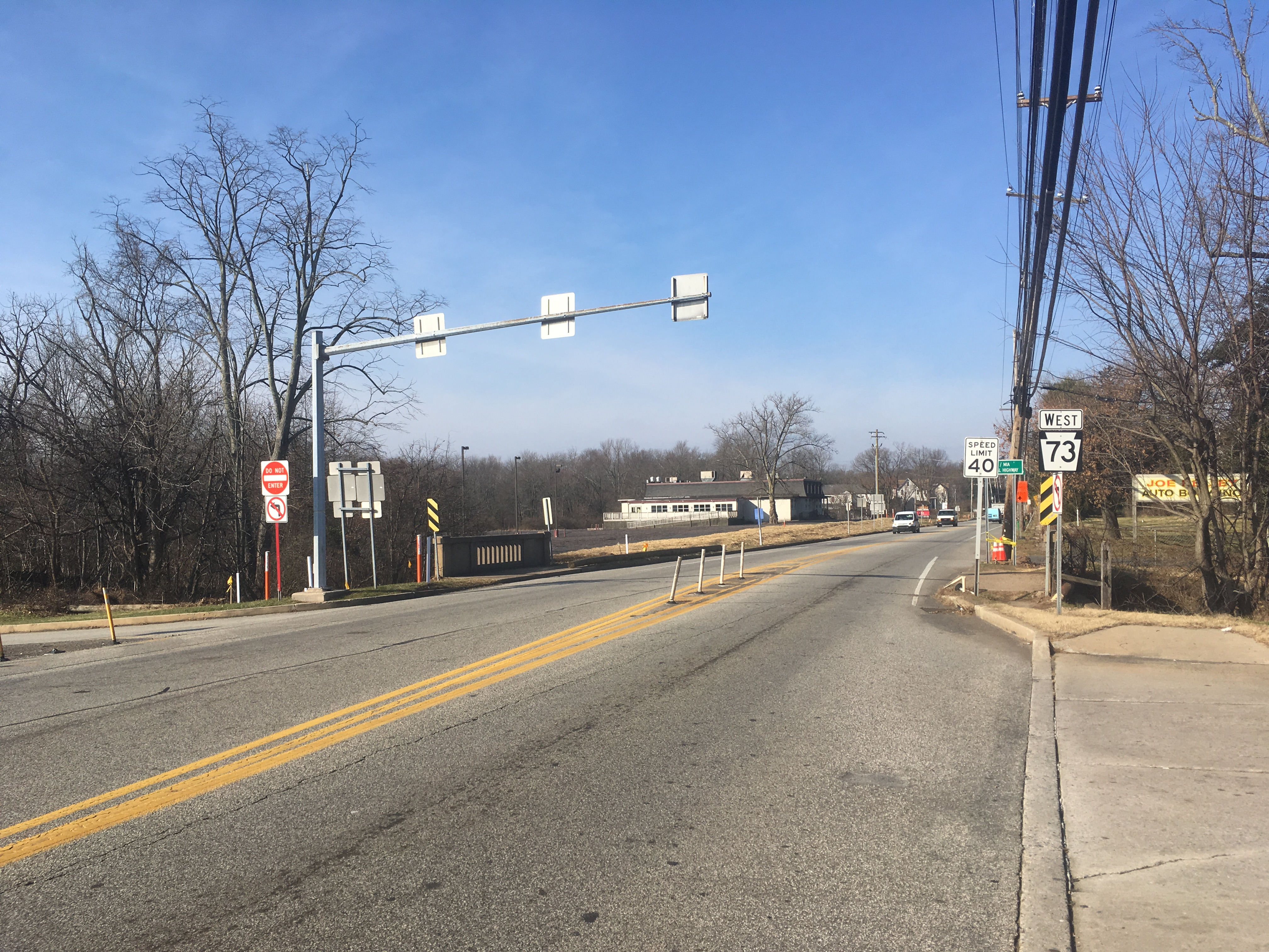 Westbound Pennsylvania Route 73 (Skippack Pike) past the intersection with U.S. Route 202 (Dekalb Pike) in Blue Bell, Pennsylvania